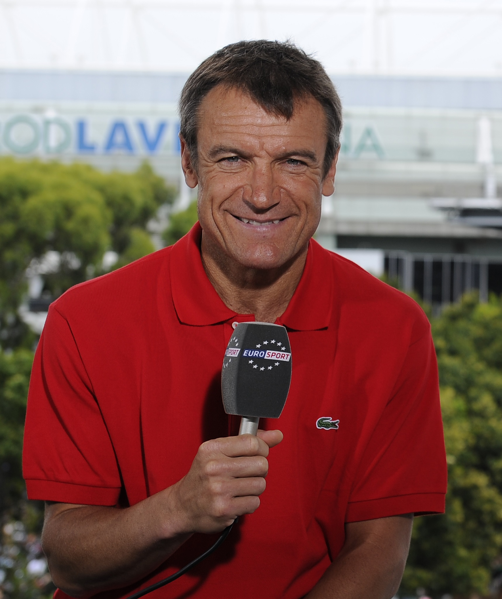 Mats Wilander in the Eurosport studio during the 2014 Australian Open at Melbourne Park.